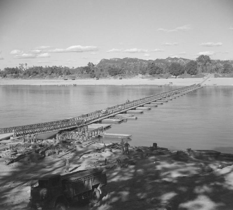 The British Army in Burma 1944 A Bailey bridge over the Chindwin River near Kalewa, December 1944.